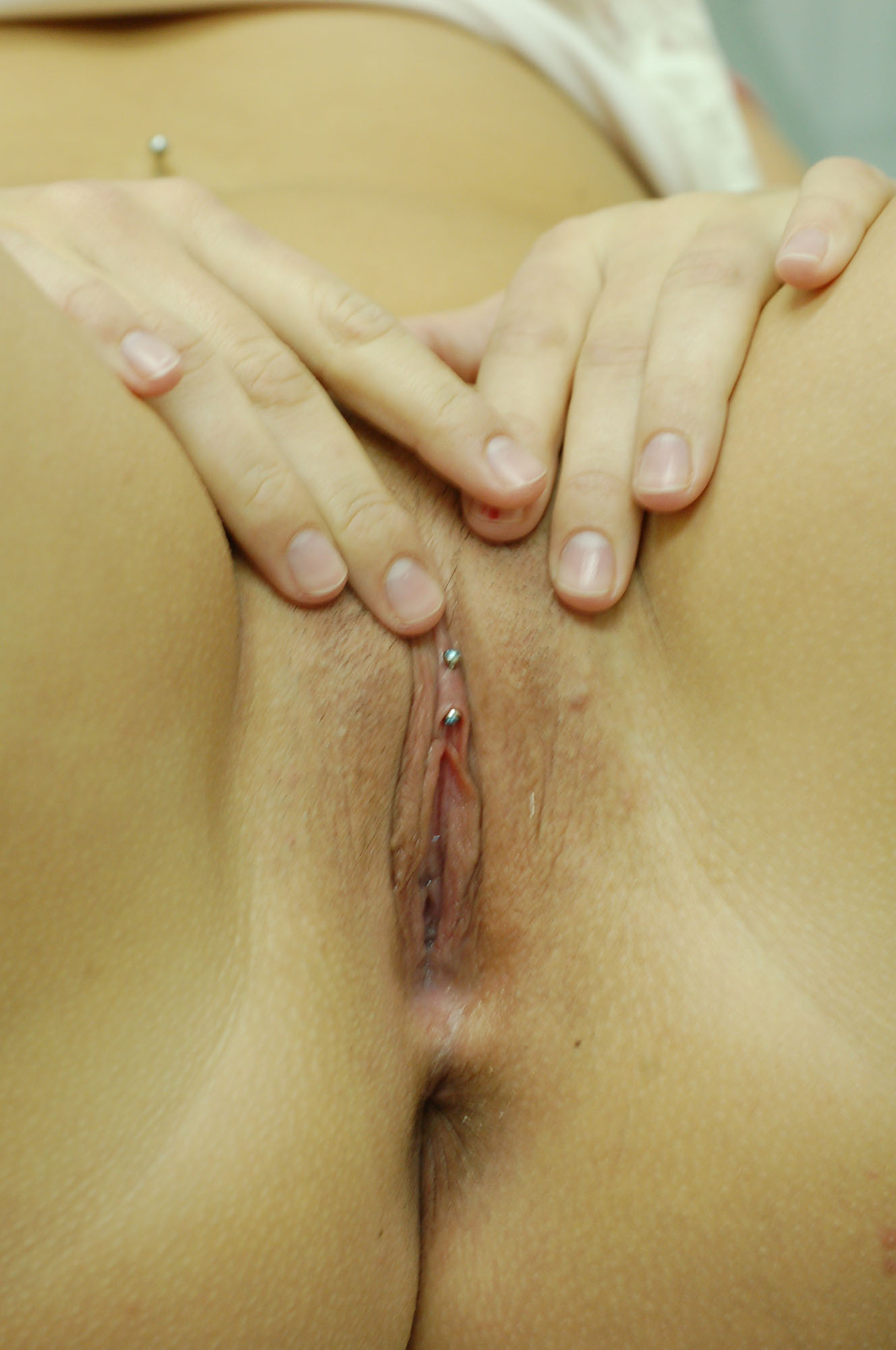 Clit hood piercing